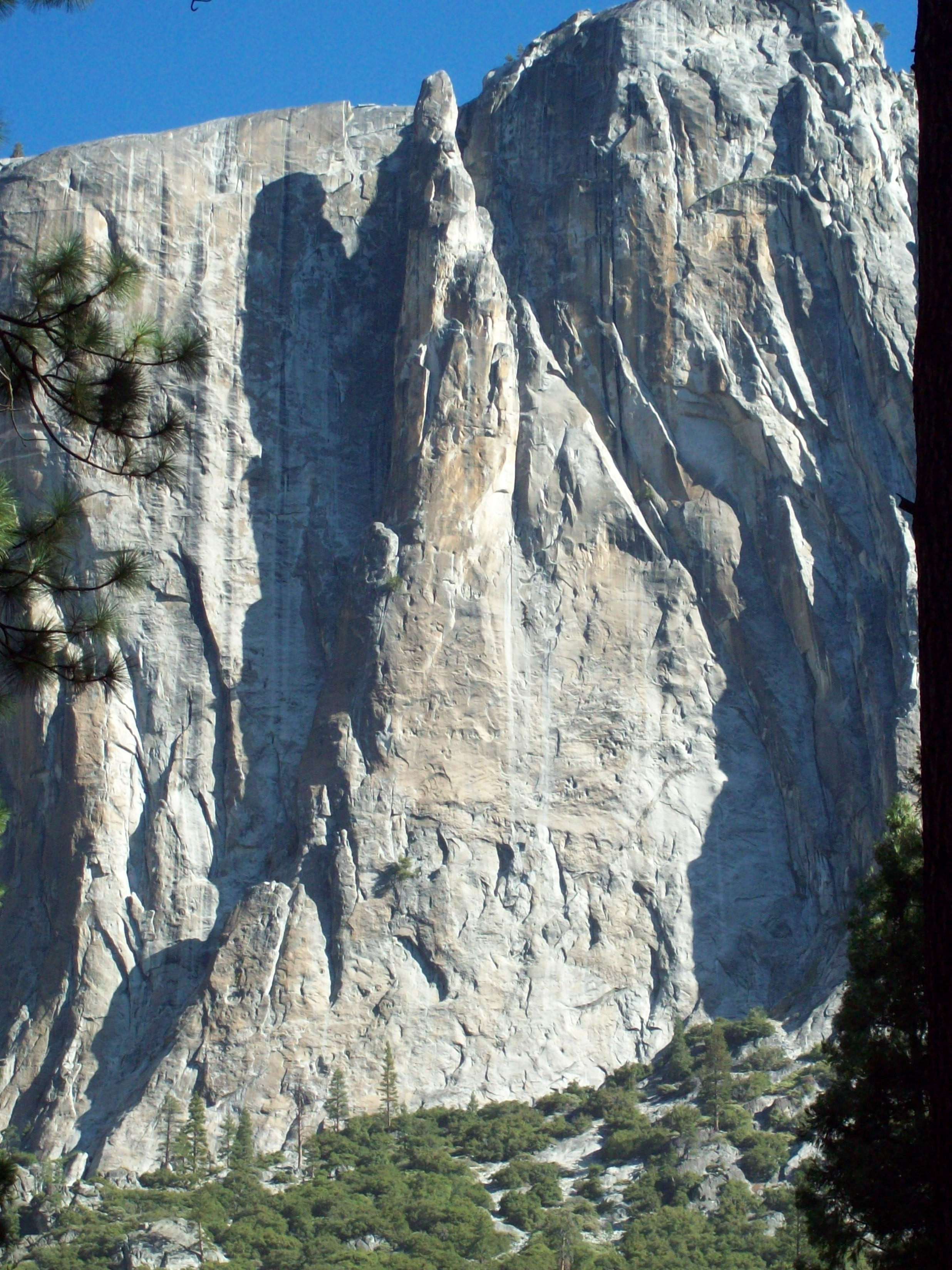 The Lost Arrow is a 300 foot detached pinnacle resting on the face of the Yosemite Point Buttress near Yosemite Falls.